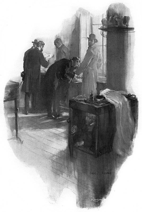 Pall Mall's illustration for E. W. Hornung's Raffles short story "The Raffles Relics" by Cyrus Cuneo. This story was first published in Pall Mall Magazine in the September 1905 issue. It takes place in December, 1899.